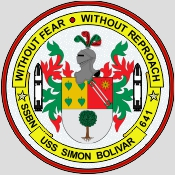 SSBN 641 Emblem